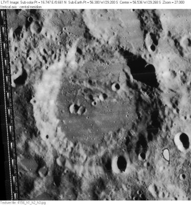 Image LO-IV-156H